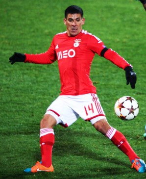 Maxi Pereira